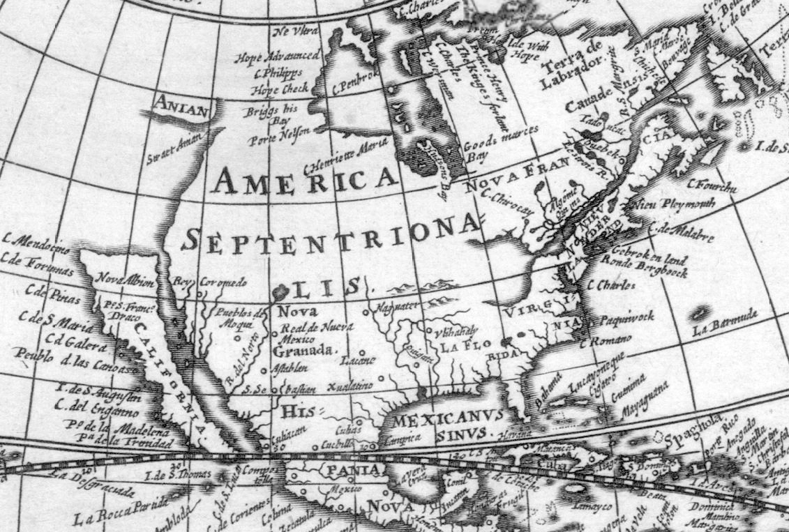 Fragment of File:Novissima totius tarrarum orbis tabula, Auctore Hugonis Allardi.jpg showing Strait of Anian